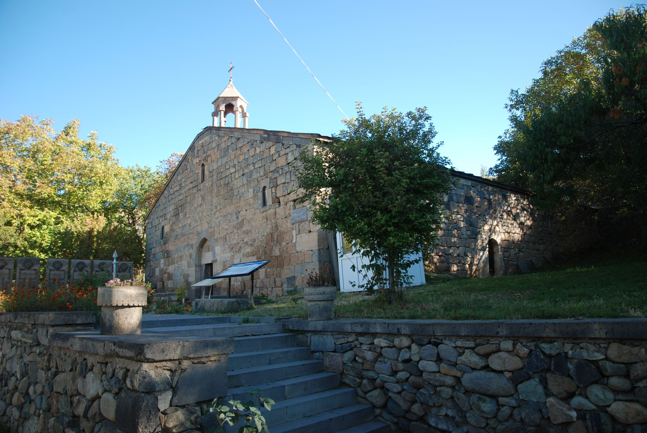 Vernashen, Gladzor museum